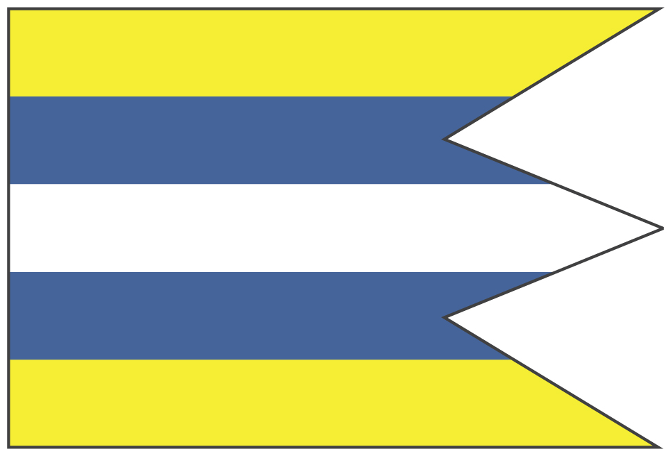 Flag of Vinné